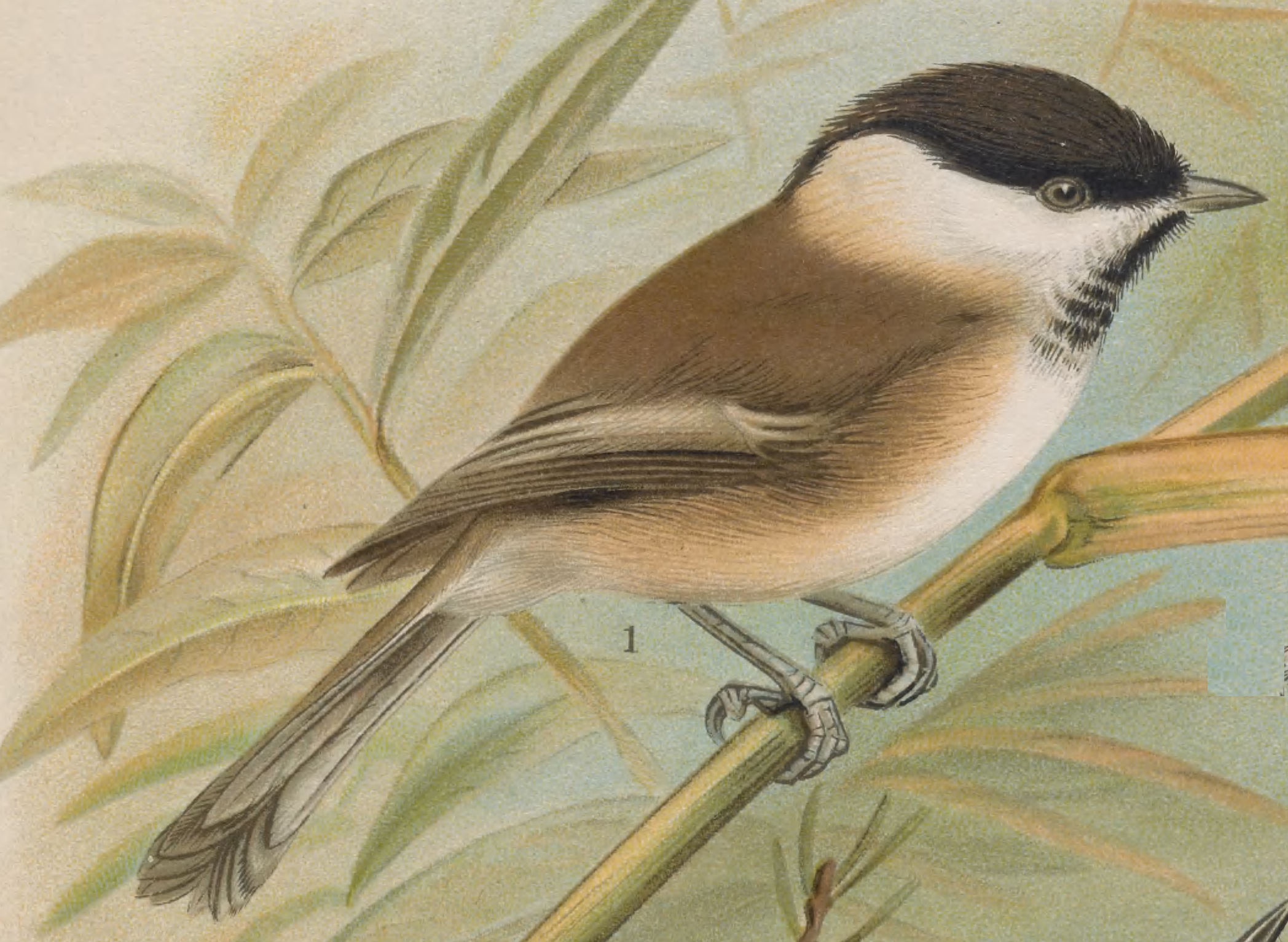 Poecile montanus salicarius Naumann